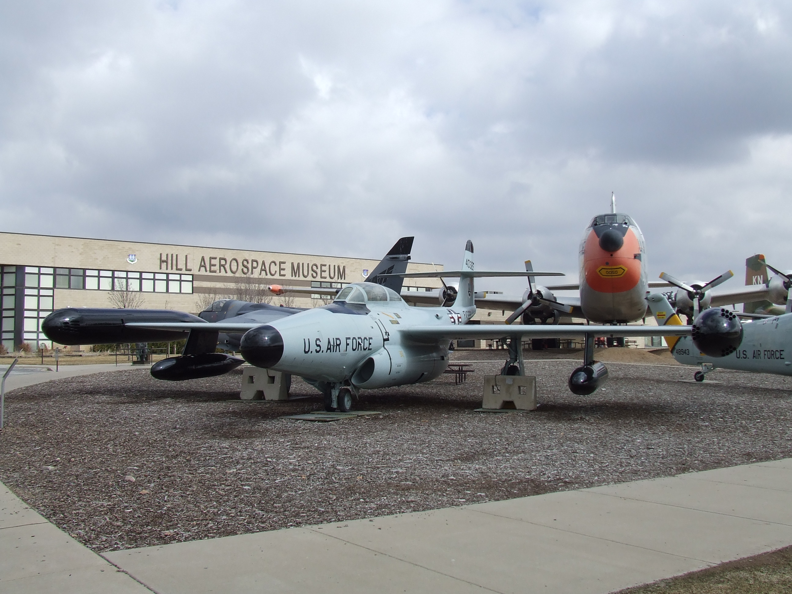 Hill Aerospace Museum, building & airpark Northrop F-89H-5-NO Scorpion 54-0322